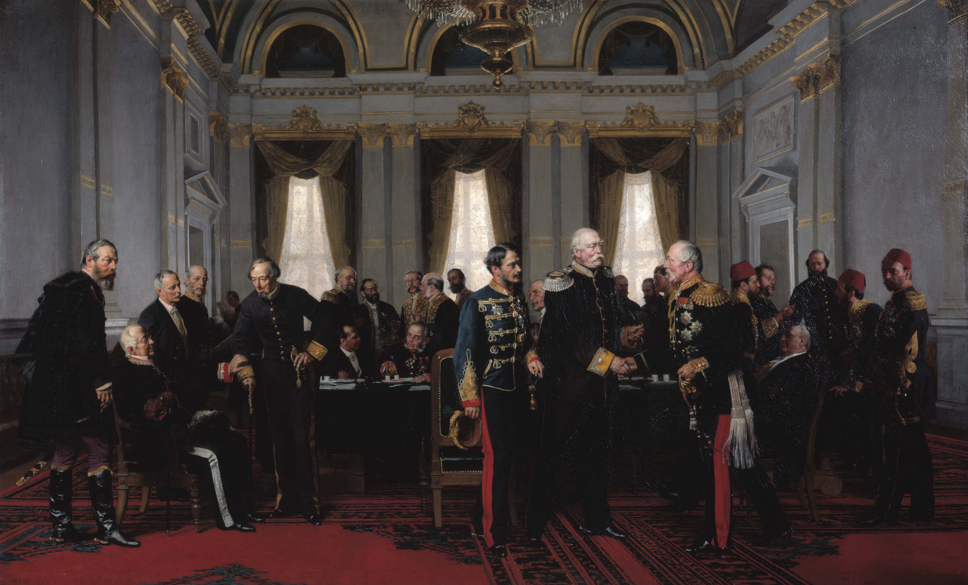 Congress of Berlin, 13 July 1878 oil on canvas 360 × 615 cm 1881